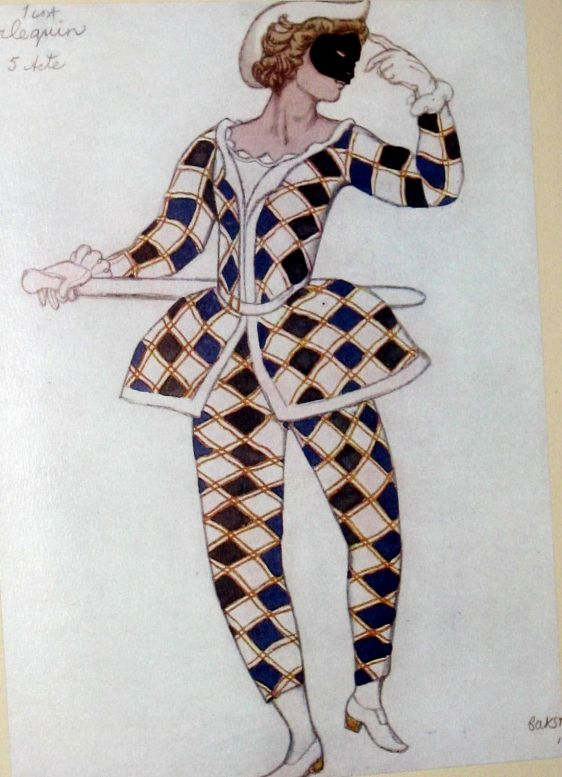 Арлекин - эскиз к "Спящей красавице"